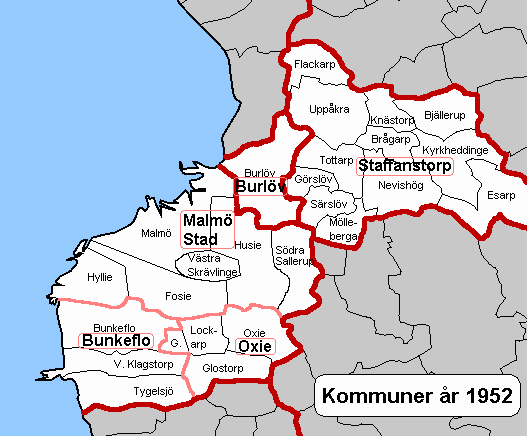 changing to correct name for Sallerup